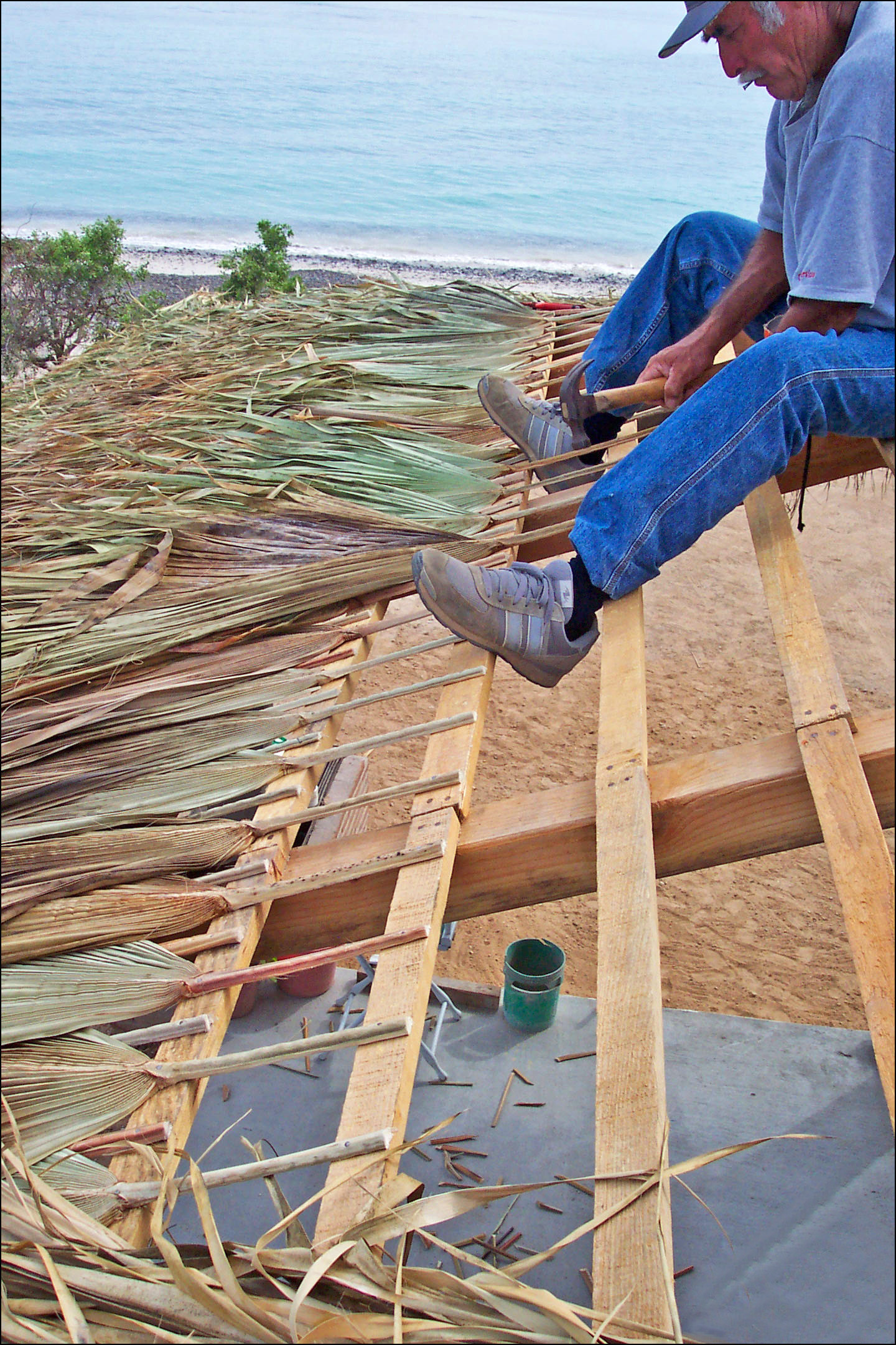 Traditional Mexican palm roofing.